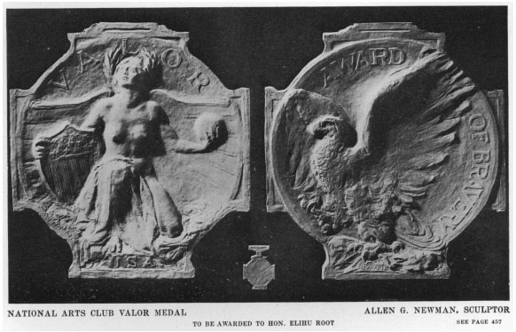 National Arts Club of New York Valor Medal (1917), Allen George Newman, sculptor.